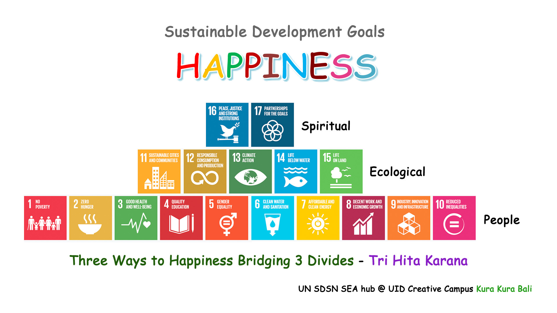 17 Sustainable Goal in relation with Balinese Tri Hita Karana, Three Ways to Happiness bridging three divides